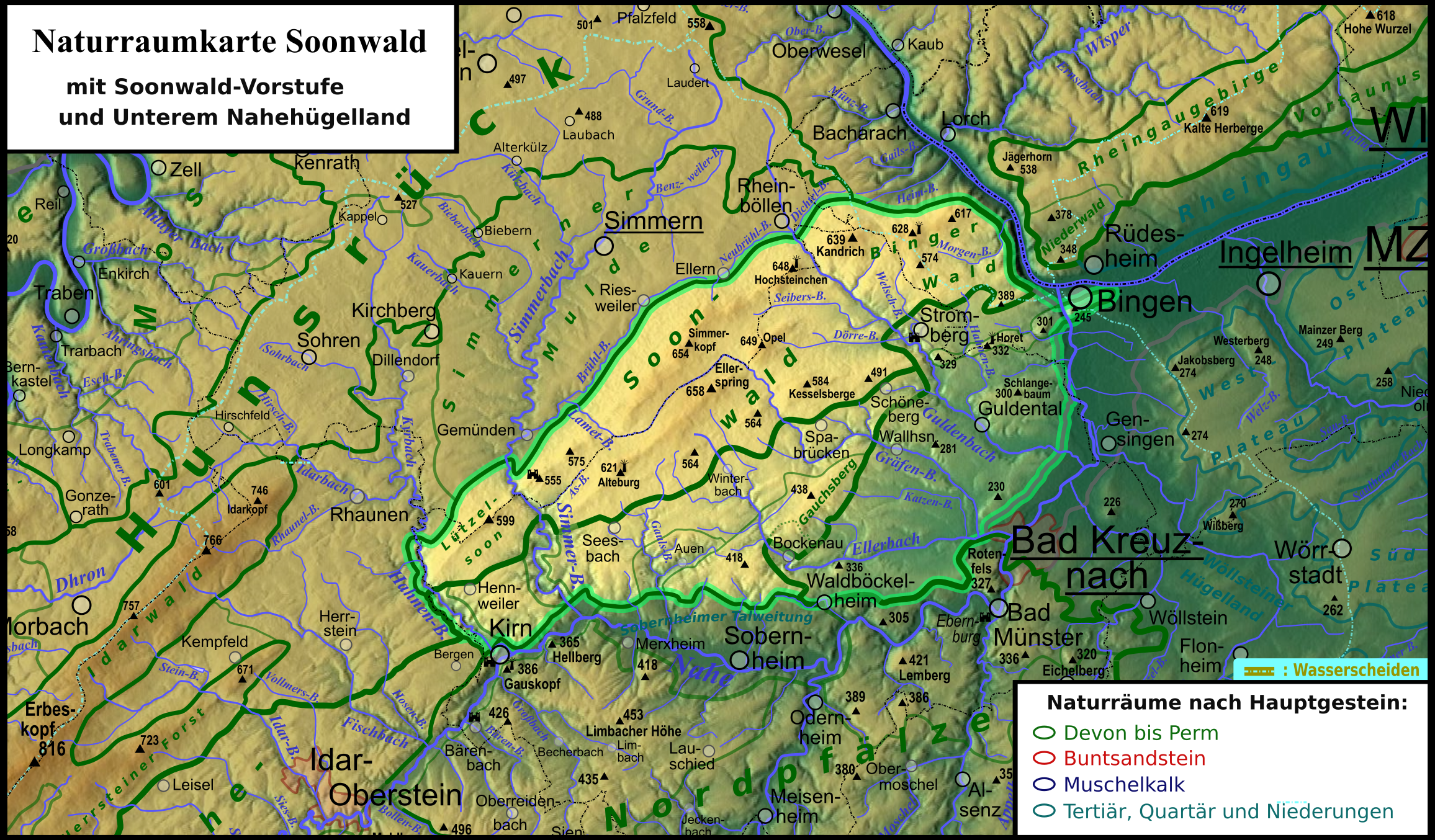 Map of natural regions of the Soonwald